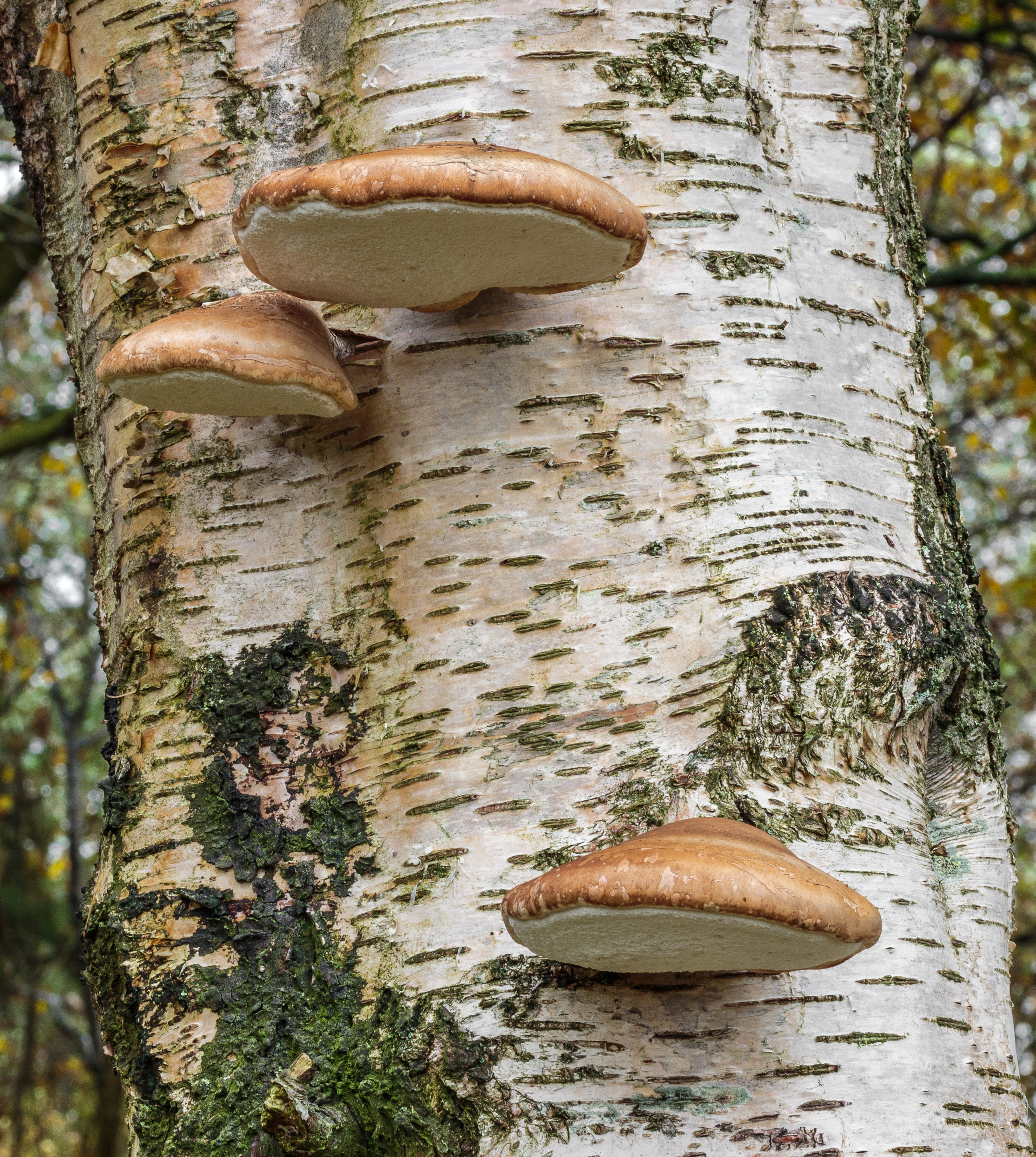 Birch mushroom (Piptoporus betulinus) on the trunk of a birch.